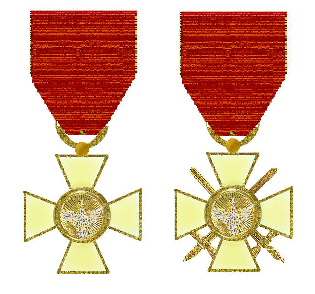 Orden vom Weissen Valken oder der Wachsamkeit Ehrenkreuz Order of the White Falcon Sachse-Weimar Knight IInd. Class